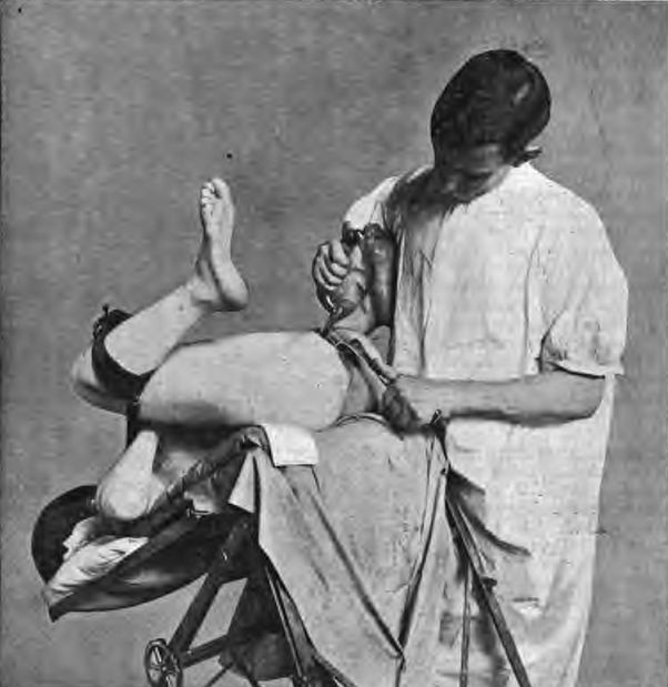 Photograph depicting a pelvic examination in progress.